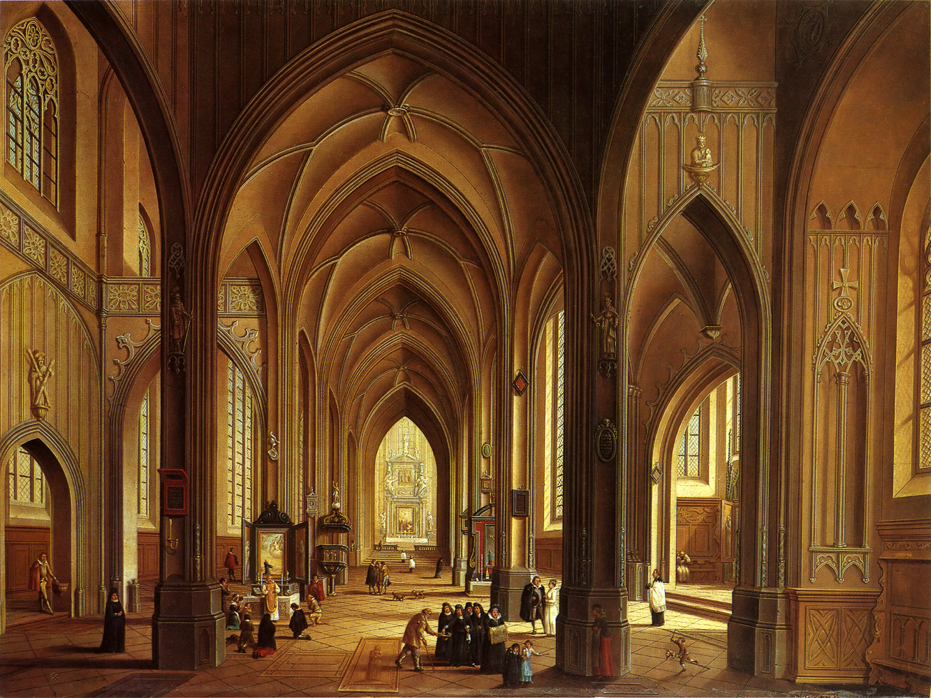 Interior of a gothic church, oil on copper